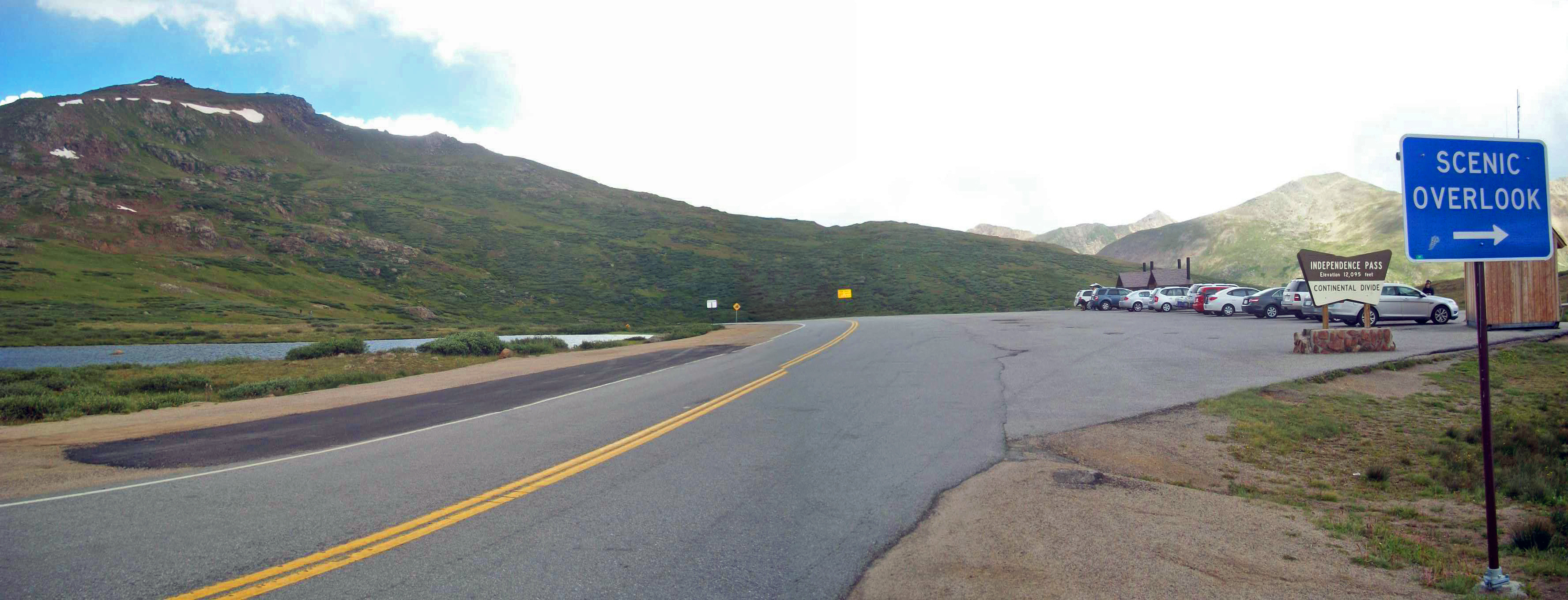 Panoramic view of Independence Pass looking along along Colorado State Highway 82. At 12,095 ft (3,687 m) above sea level, this is the highest elevation reached by a Colorado state highway.